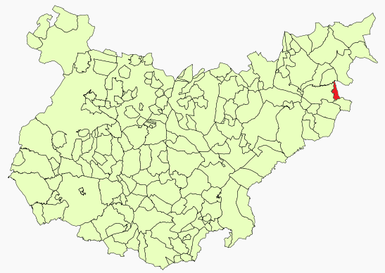 Tamurejo